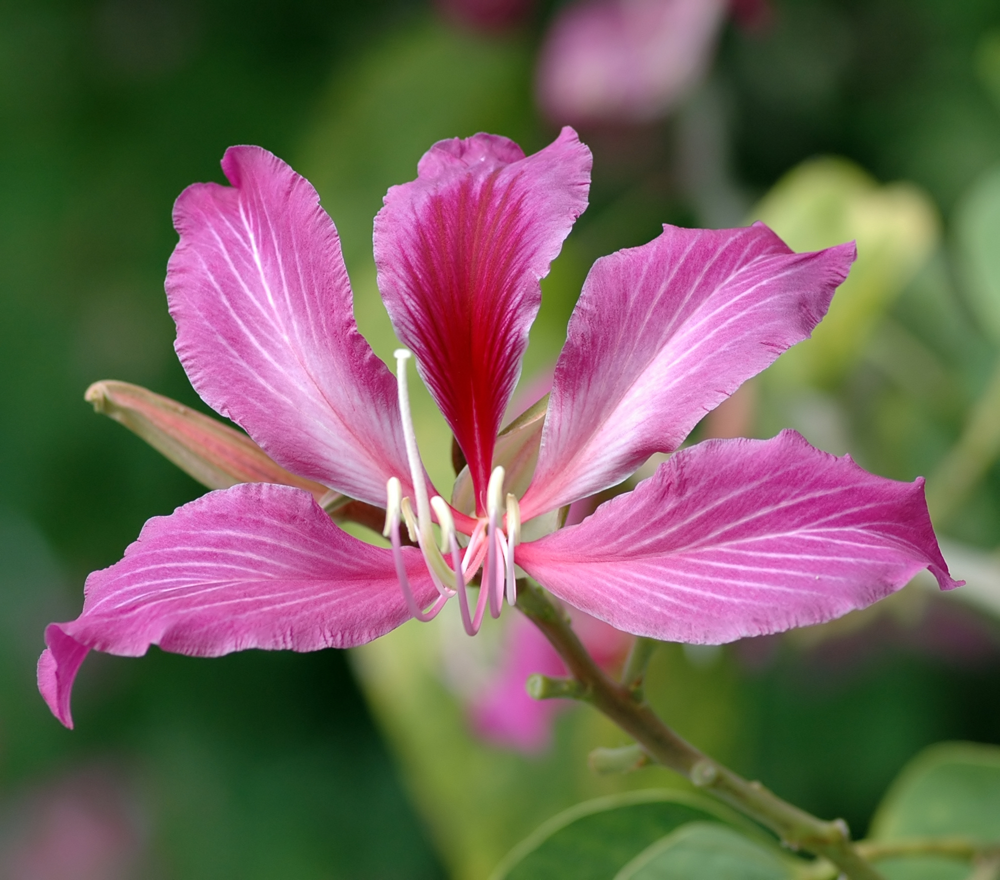 A flower from Bauhinia blakeana in Key West, Florida This is a retouched picture, which means that it has been digitally altered from its original version. Modifications: noise reduced by Lycaon.